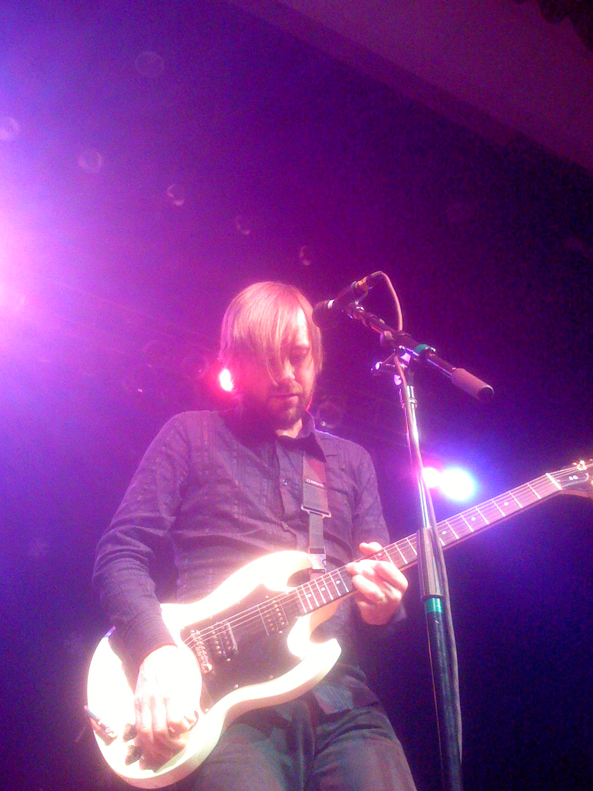 Fred, in Covington Ky. (The Color Fred)